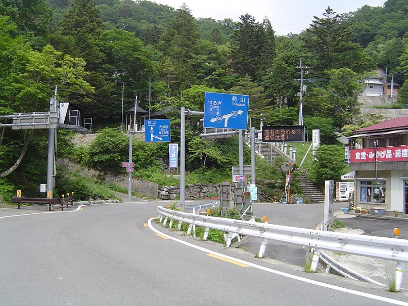 Minokoshi_intersection in Miyoshi city Japan